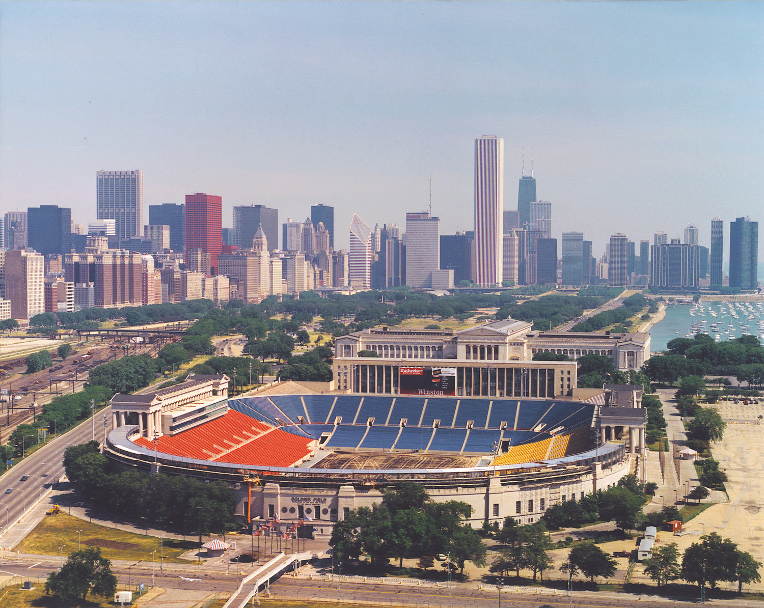 Aerial view of Soldier Field and the skyline of Chicago, Illinois, USA.